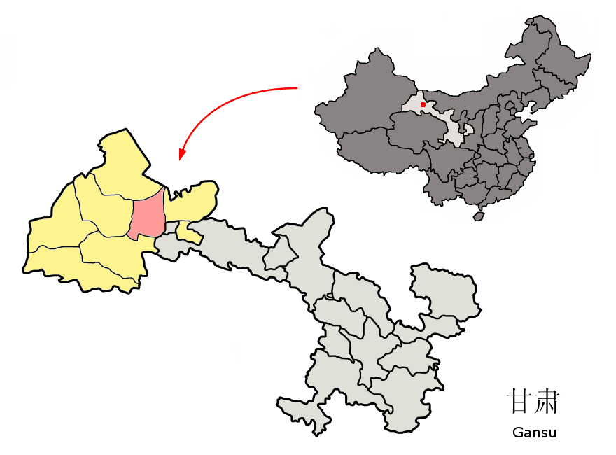 Location of Yumen City (pink) within Jiuquan Prefecture (yellow) and Gansu province of China Map drawn in september 2007 using various sources, mainly : Gansu province administrative regions GIS data: 1:1M, County level, 1990 Gansu Counties map from Jiuquan Prefecture map from .cn